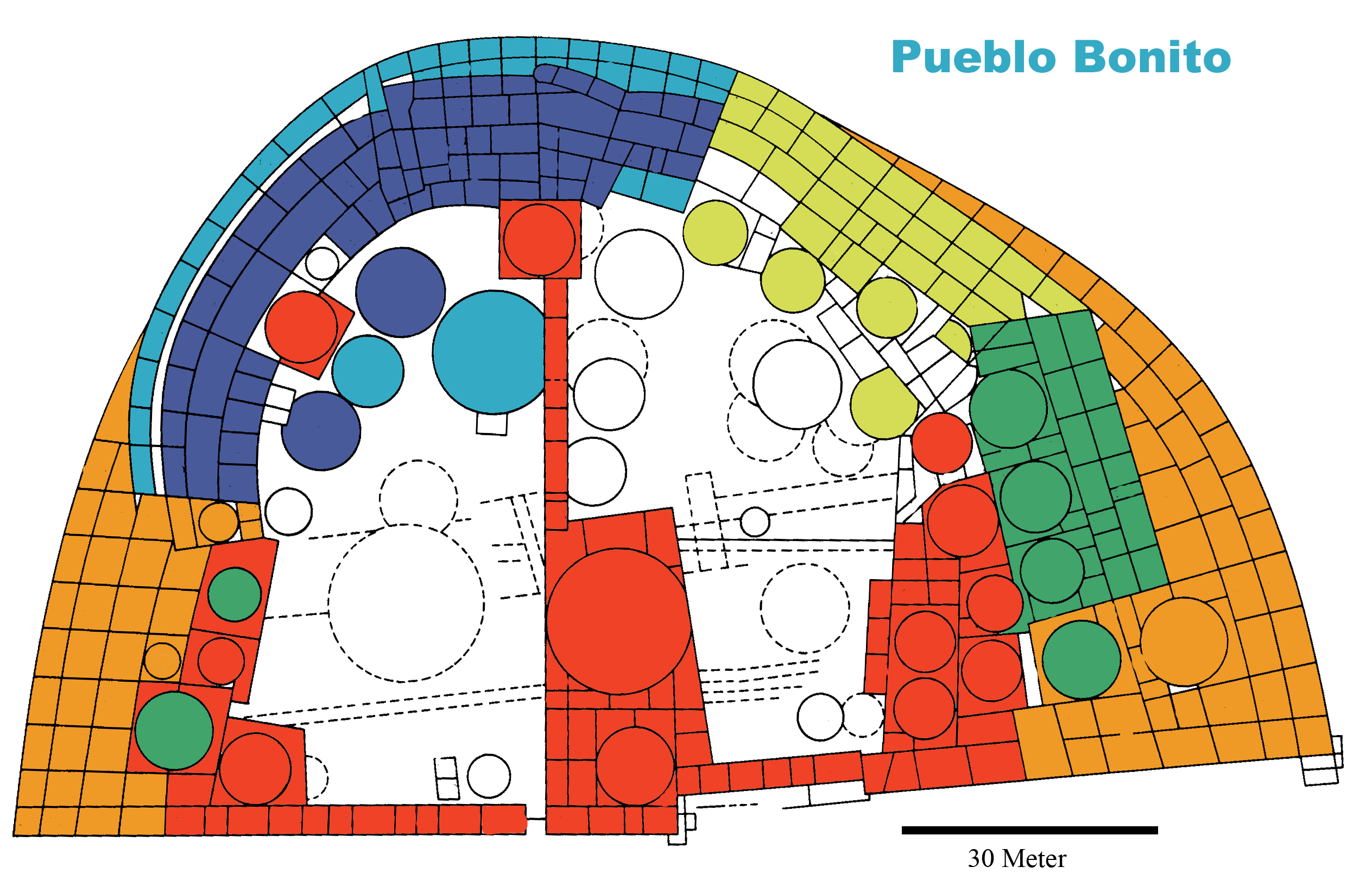 Pueblo Bonito,Chaco Canyon, New Mexico, U. S. A. plan, construction stages marked